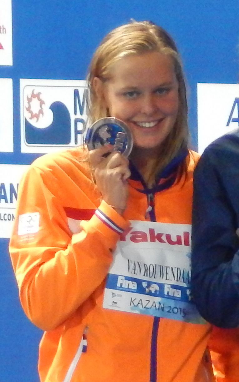 Medallists at the women's 400 metres freestyle in Kazan 2015